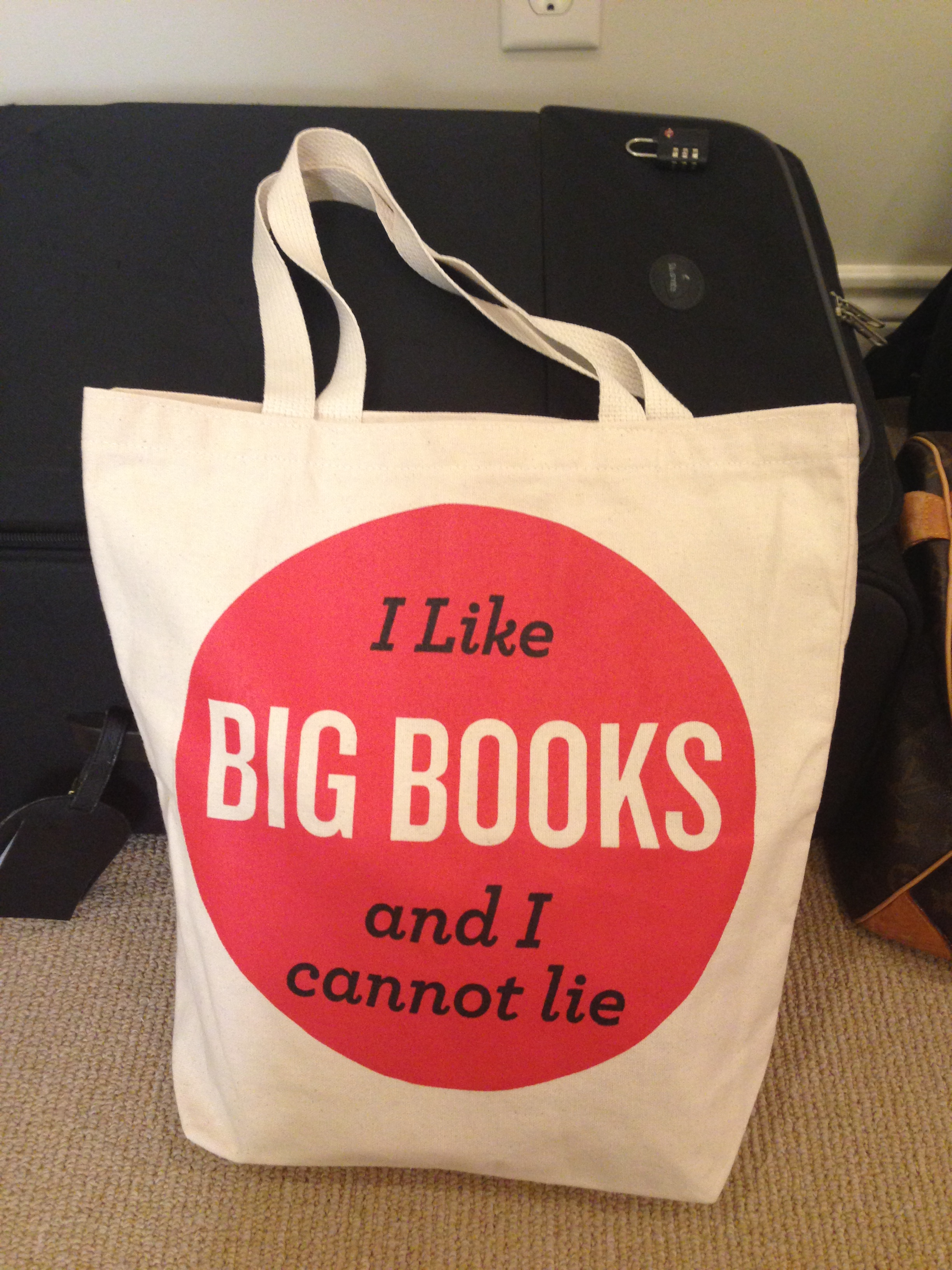 A canvas tote bag from independent bookshop Books & Books in Coral Gables, Miami, Florida, USA, with the slogan "I love big books and I cannot lie", a play on the words "I love big butts and I cannot lie" from the song "Baby Got Back" (1992) by Sir Mix-a-Lot.